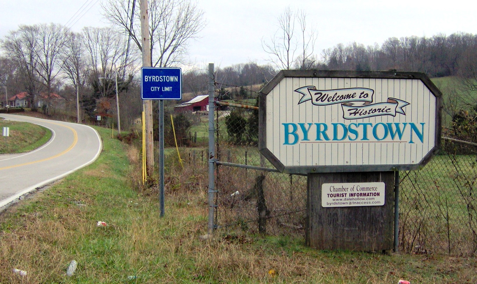 The "entrance" to Byrdstown, Tennessee.